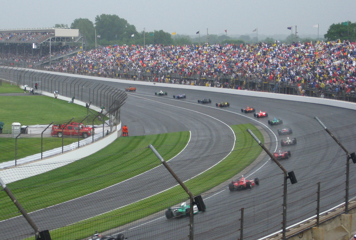 The field under caution due to rain at the 2007 Indianapolis 500